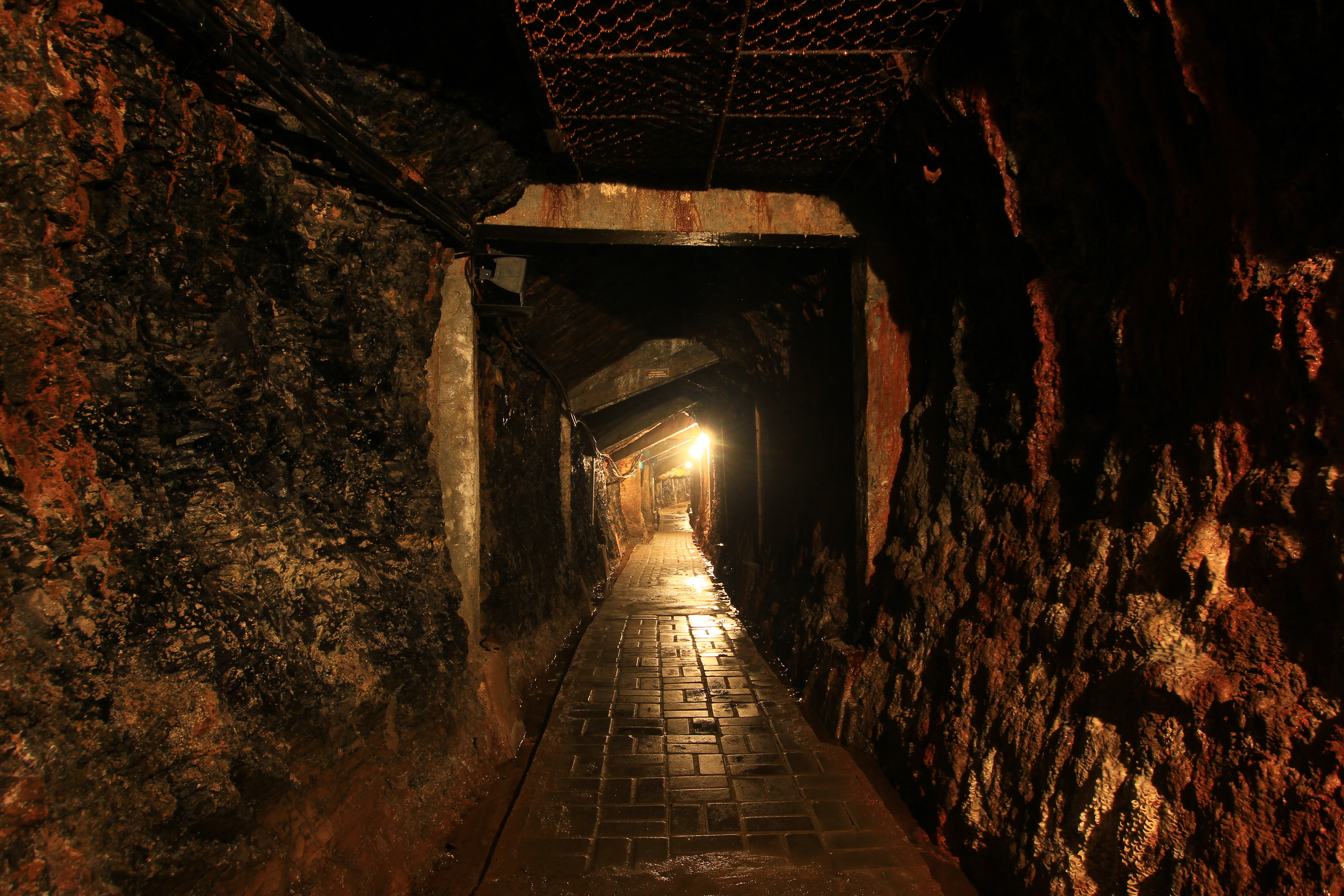 Lubang Tambang Mbah Soero by Mugikun